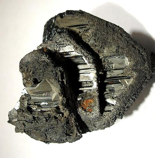 Manganocolumbite Locality: Elizabeth R. Mine, Chief Mountain, Pala District, San Diego County, California, USA (Locality at ) Size: miniature, 4.5 x 3.5 x 1.8 cm Manganocolumbite A magnificent crystal for the species from ANY location! This hoppered or stepped crystal is just exquisite as the pics indicate. It seems to be composed of two generations of growth. It was obtained by Chris from the personal collection of mine owner Roland Reed earlier this year. I never imagined such a thing existed from the County. 4.5 x 3.5 x 1.8 cm